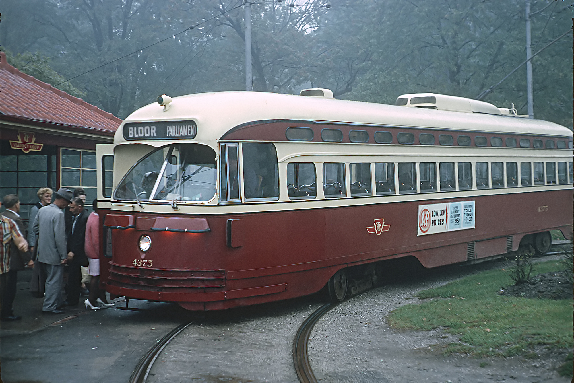 A Roger Puta photograph